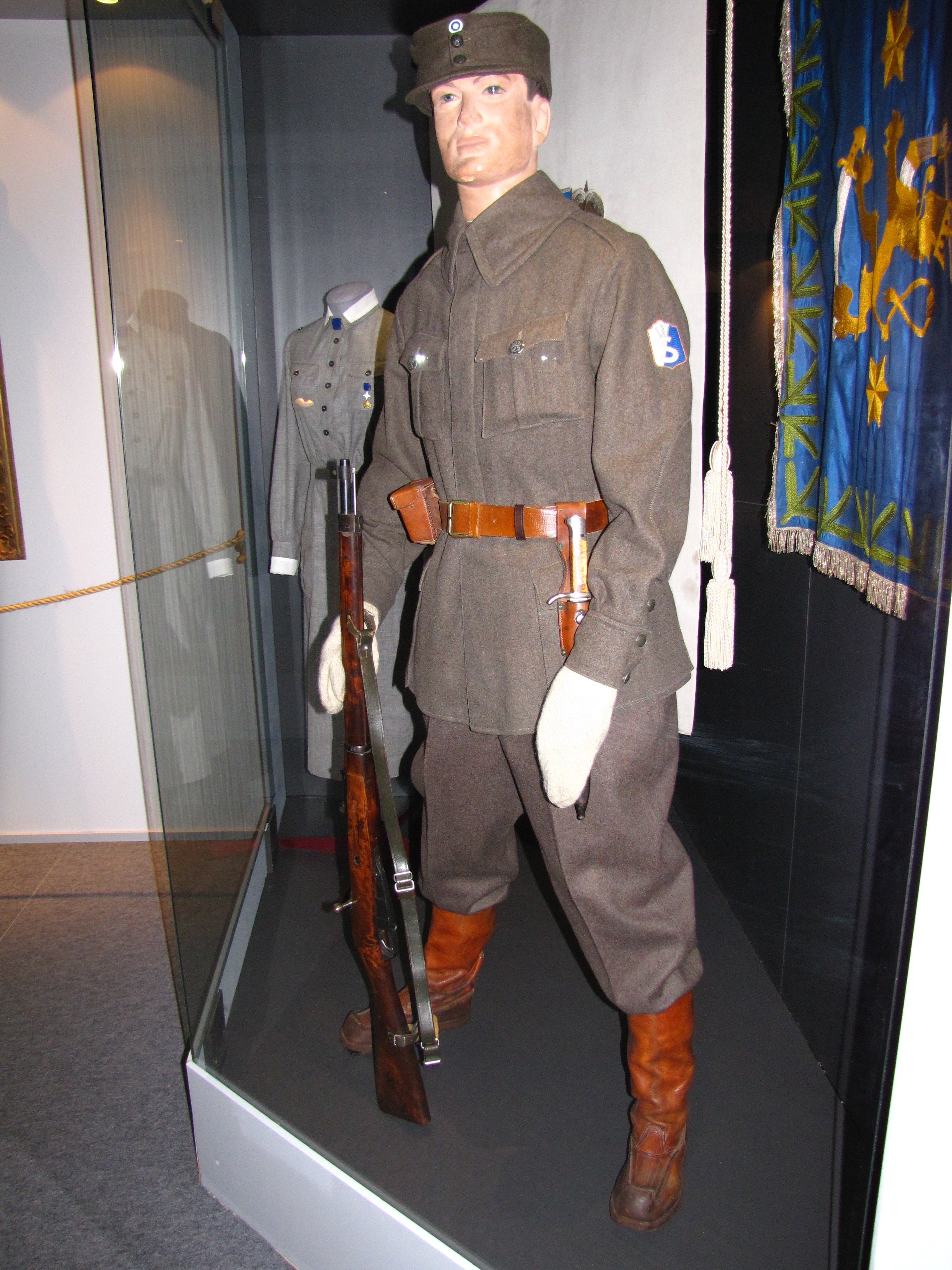 Mannequin in Finnish service dress m/27 uniform with civil guard insignia and m/28-30 rifle. Photographed in the "Winter War - 70 years" exhibition in the Military Museum of Finland.